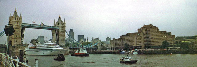 Tower Bridge with the Tower Hotel, London Taken from the South Bank of the Thames on the occasion of the 100th anniversary of Tower Bridge. The Bridge is open and the "Royal Viking Queen" liner is coming through.